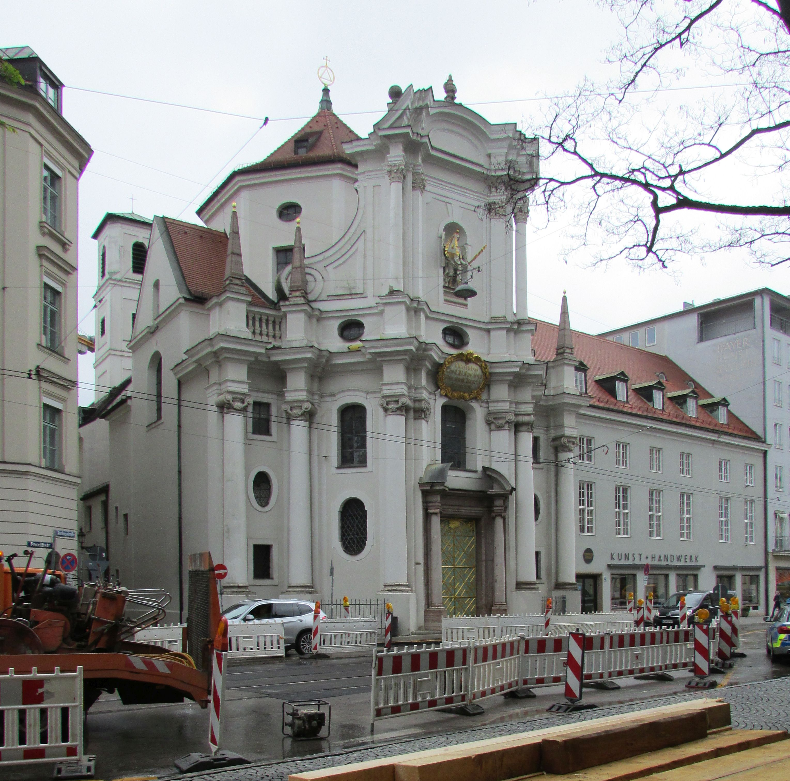 Trinity Church, Pacellistraße 6, Munich